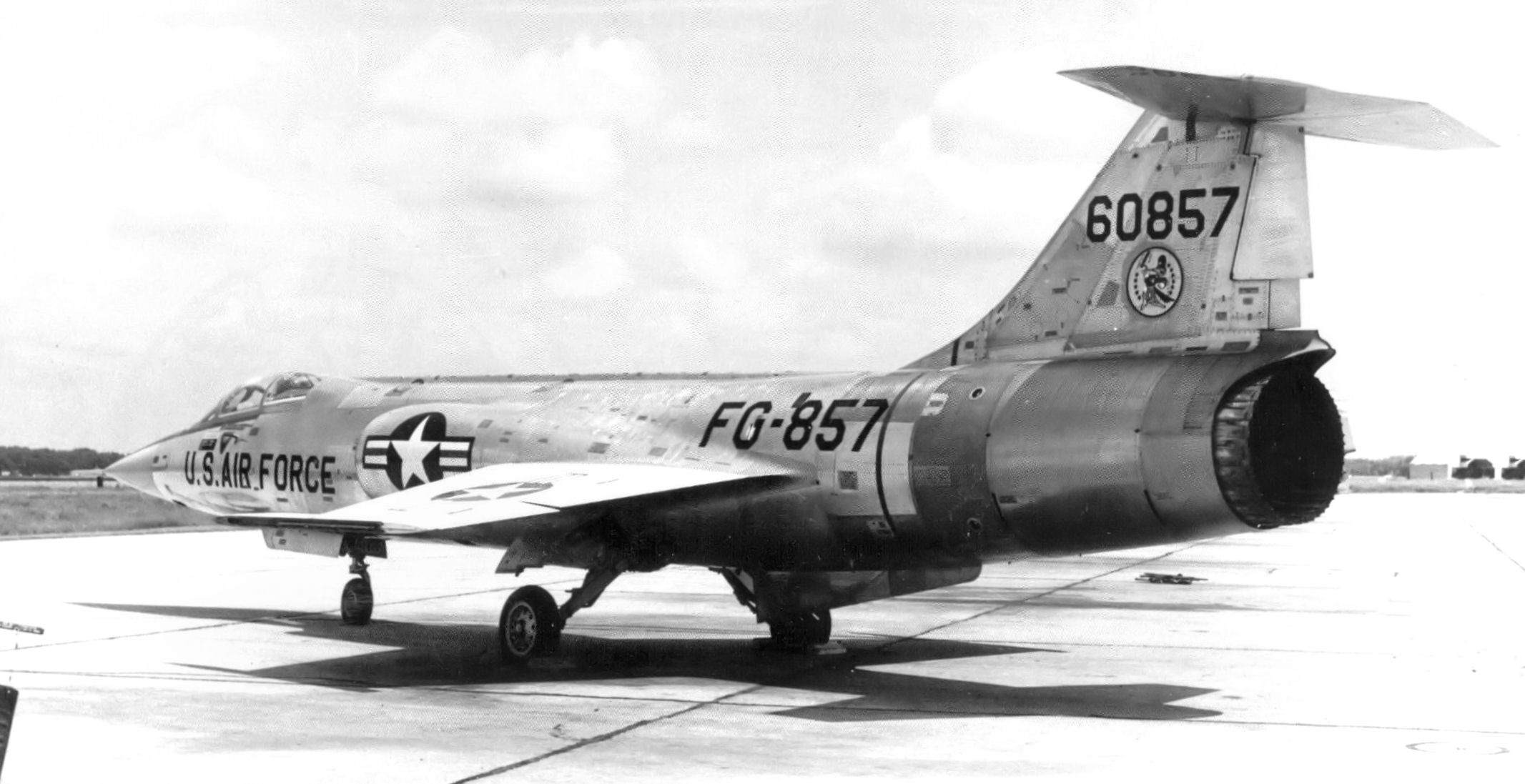 56th Fighter-Interceptor Squadron Lockheed F-104A-25-LO Starfighter 56-857 Wright-Patterson AFB, Ohio, May 1958.